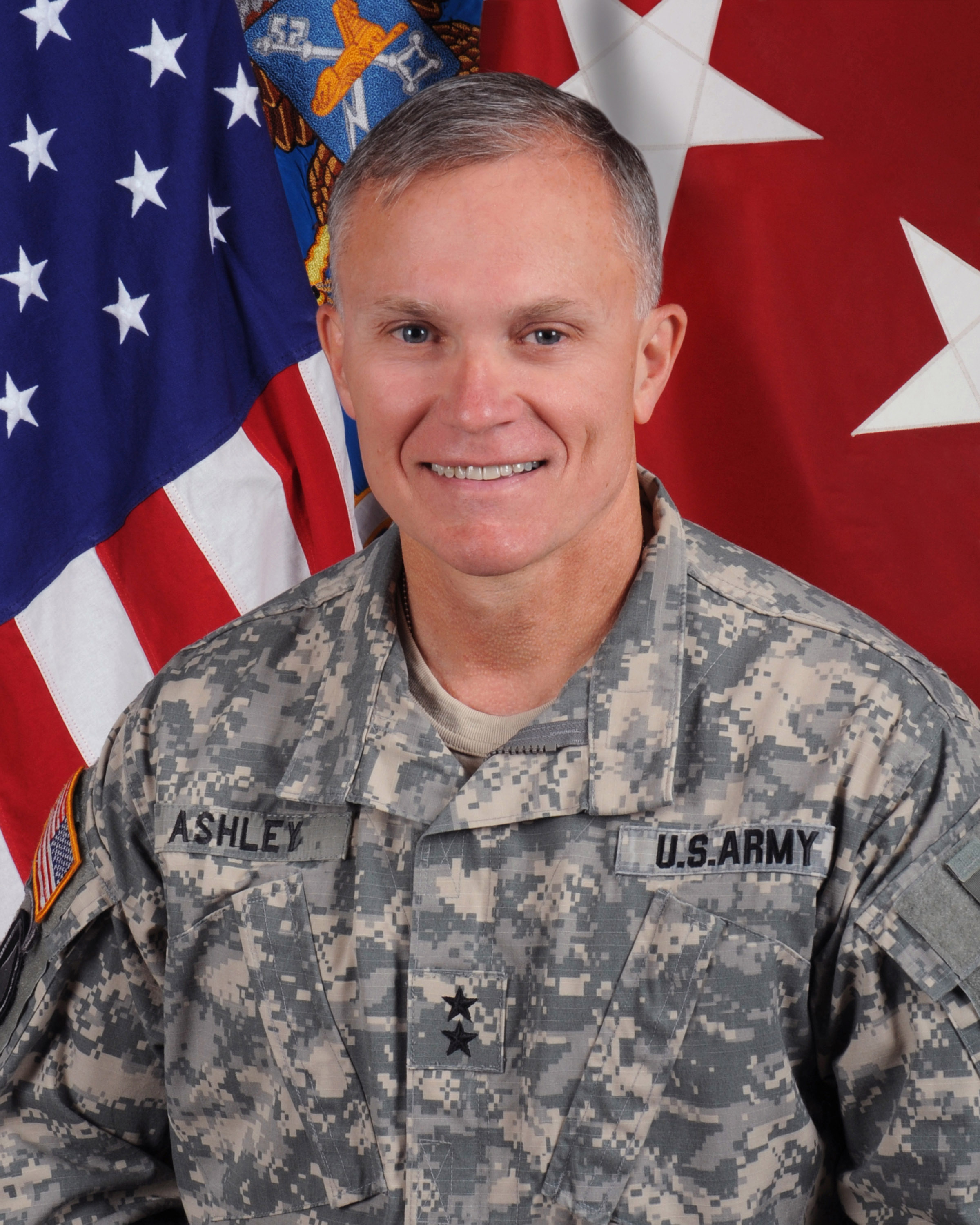 Maj. Gen. Robert P. Ashley, Jr.